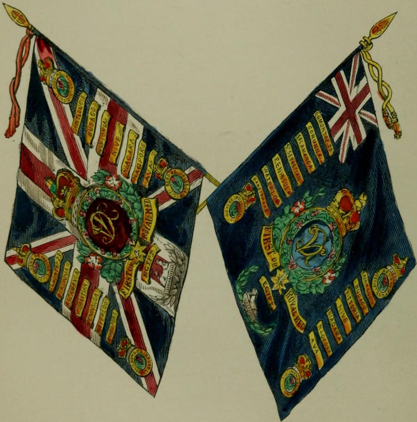 Colours of the 1st Royal Regiment.